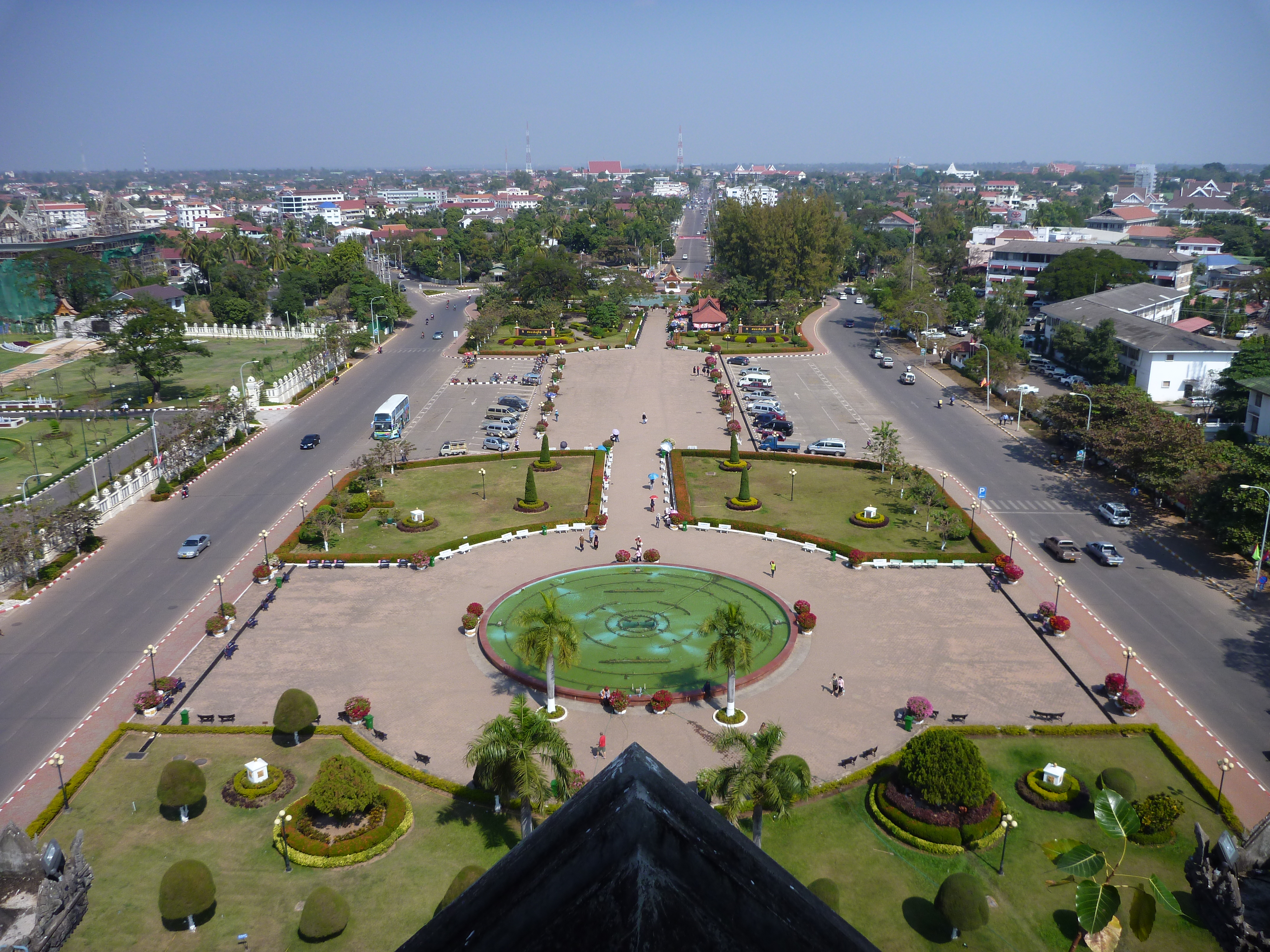 View from PatuXai_002